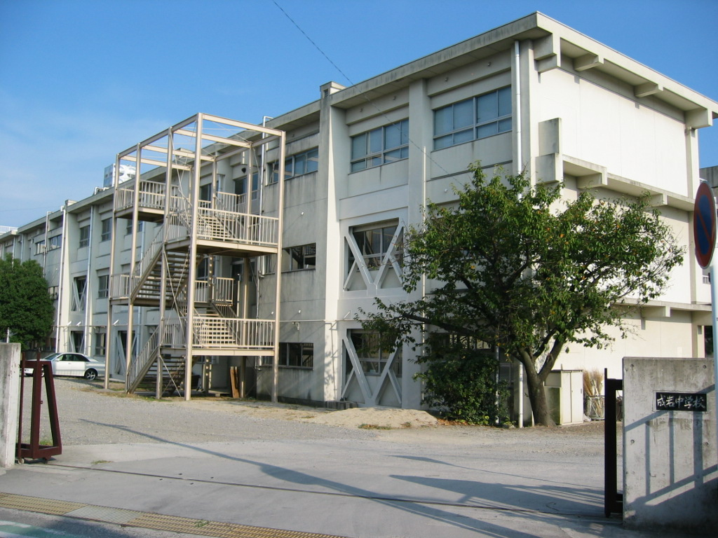 Narawa jnior high school north gate.